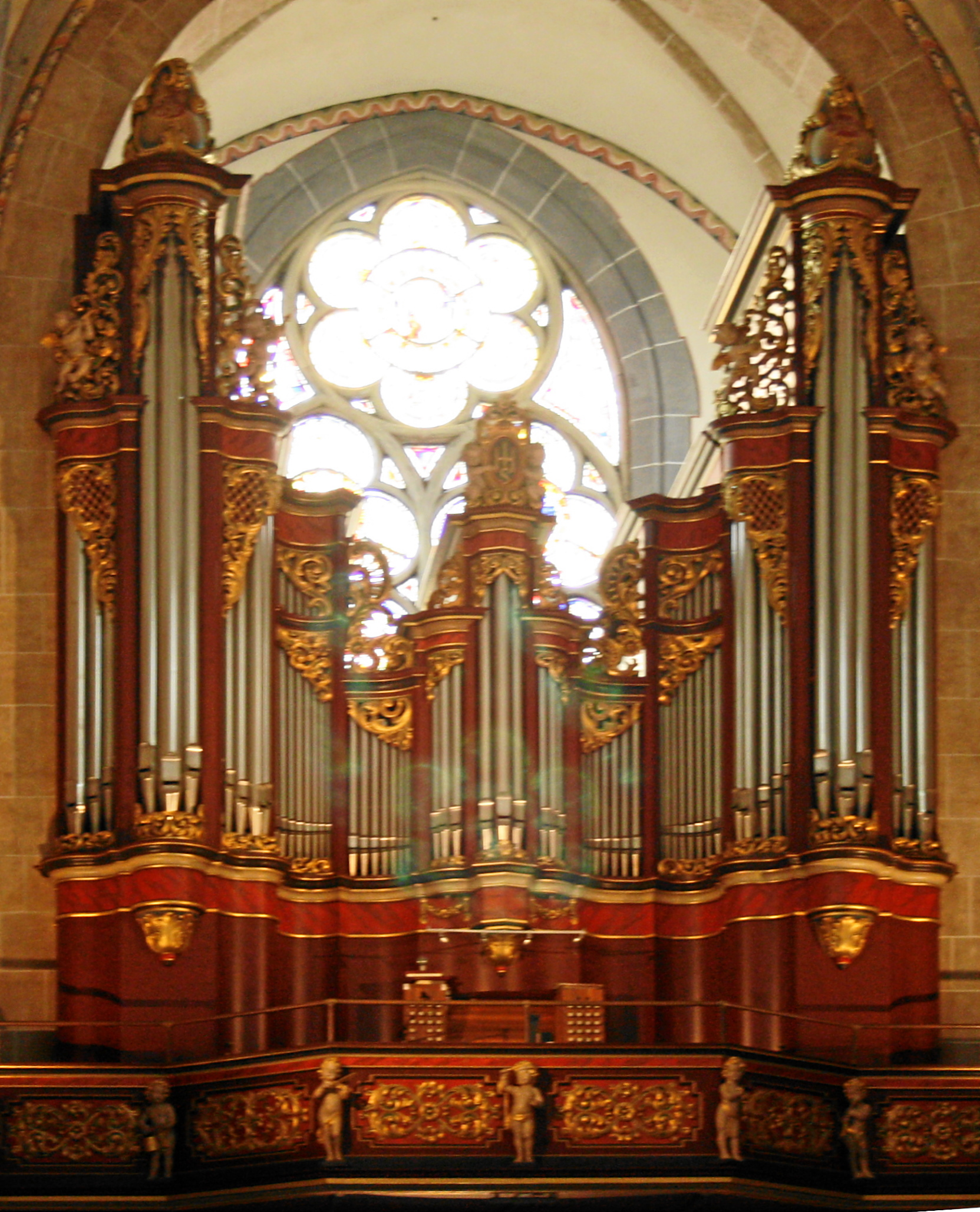 Essen-Werden, Germany. Roman-catholic church St. Ludgerus, basilica minor. pipe organ.